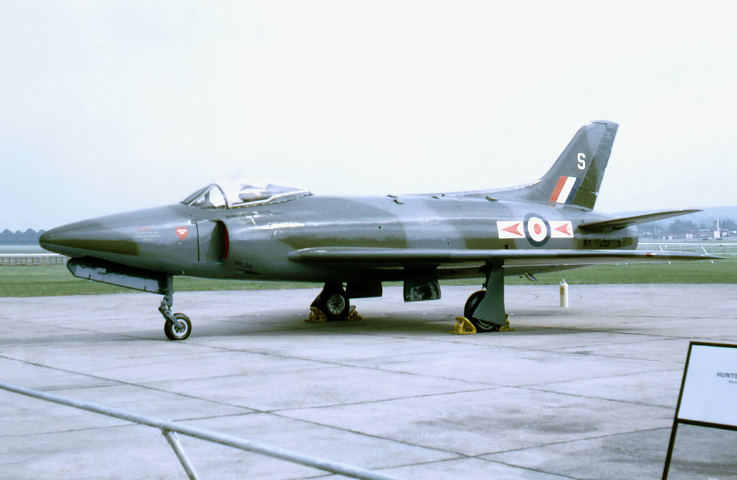 Supermarine Swift FR.5 WK281 wearing the markings of No. 79 Squadron RAF at RAF Abingdon in 1968